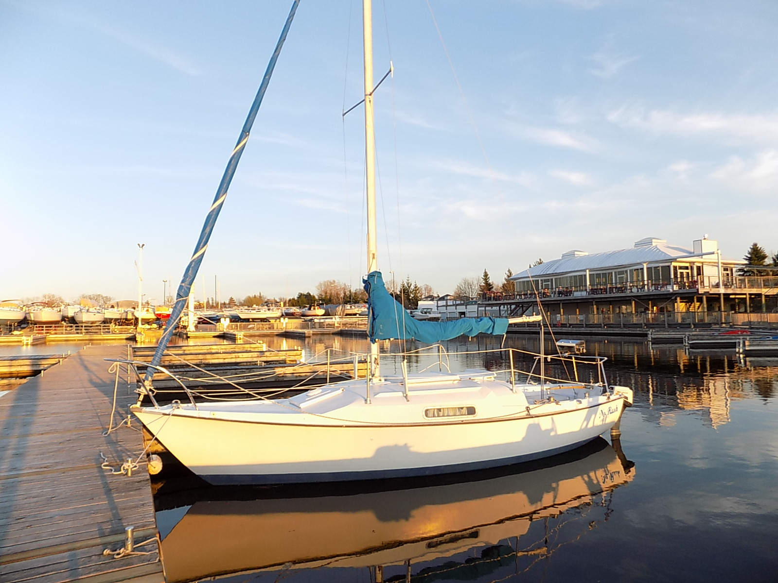 A C&C 25 Redline Sailboat named No Rush